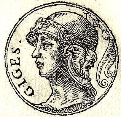 Gyges was the founder of the third or Mermnad dynasty of Lydian kings and reigned from 716 BC to 678 BC.